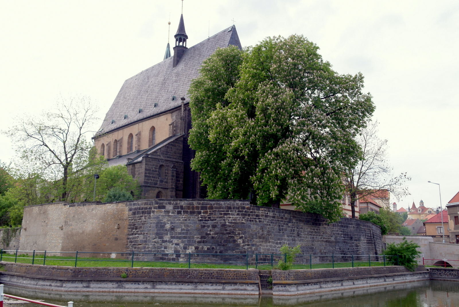 Church of St. Gotthard, Slaný.View from the east through the medieval fortification at Brod (moat).